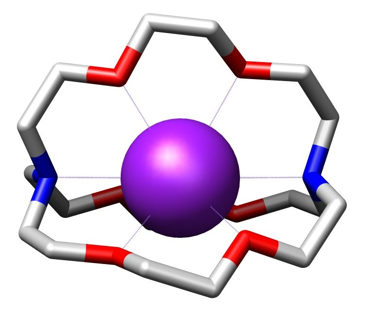 X-ray structure of K+ [2.2.2]cryptate. Original summary: "This is a picture generated from crystal structure data reported by Roger Alberto, Kirstin Ortner, Nigel Wheatley, Roger Schibli, and August P. Schubiger in the Journal of the American Chemical Society, Year 2001, Vol 123, Pages 3135-3136. It shows a potassium ion bound within a Cryptand[2.2.2]. It was made by myself and is free to be used by all."